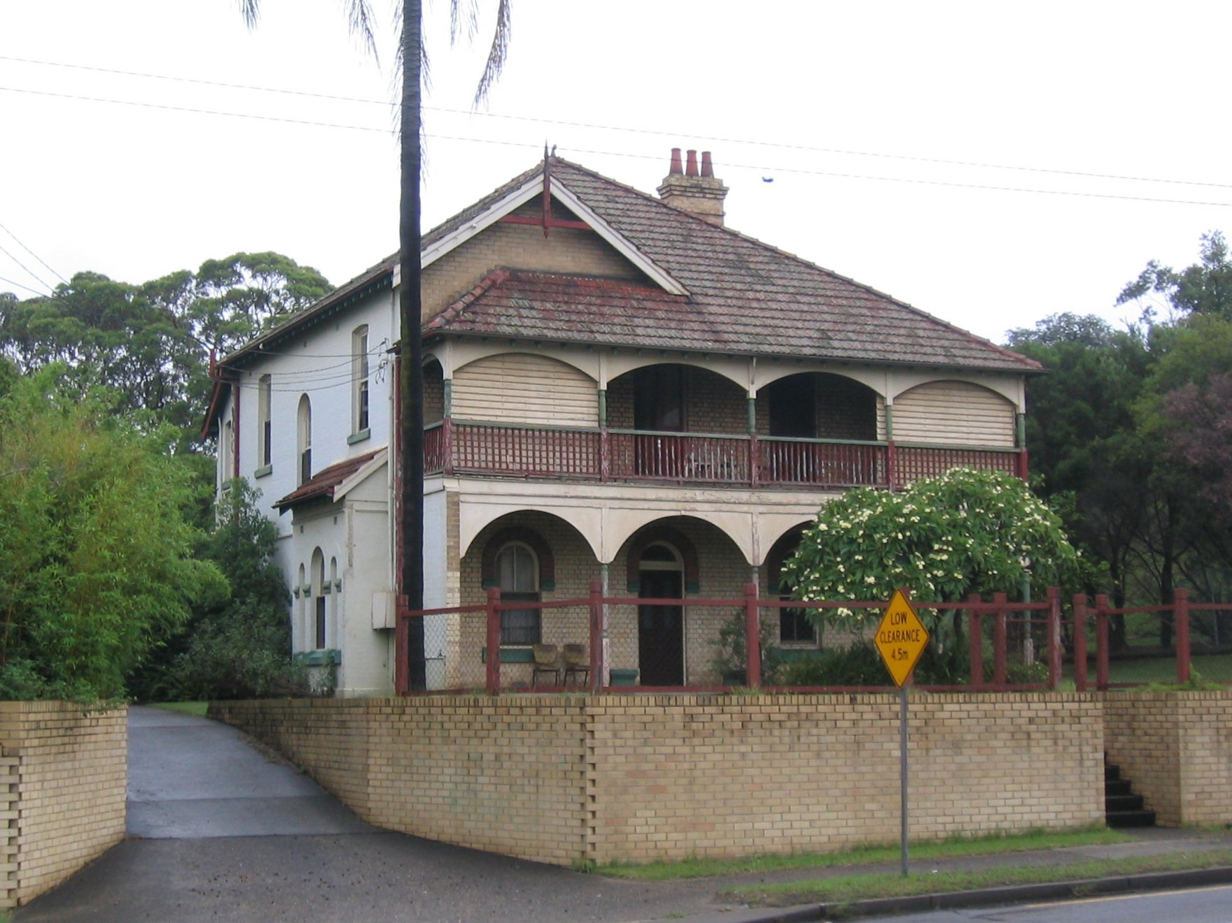 A heritage listed house outside the pumping station on Victoria Road, West Ryde, Sydney, Australia.